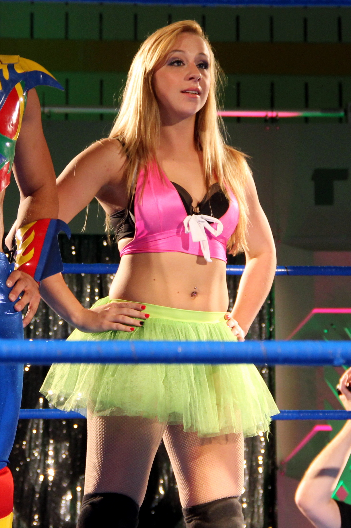 Princess Kimberlee at a Chikara show in September 2014.